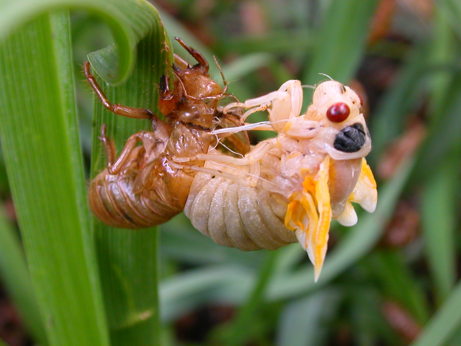 Cicada during the molting process, taken in Silver Spring, MD.